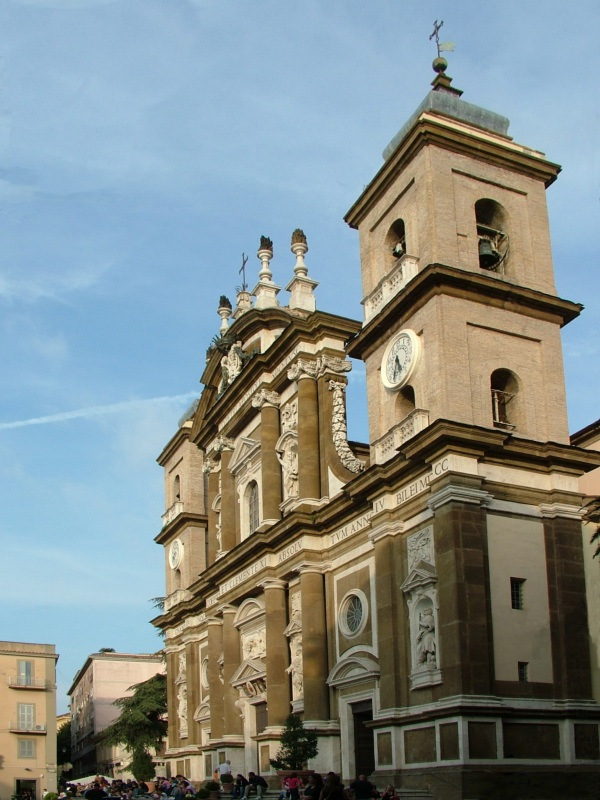 Summary Photo taken by the author, Renato Clementi 2006